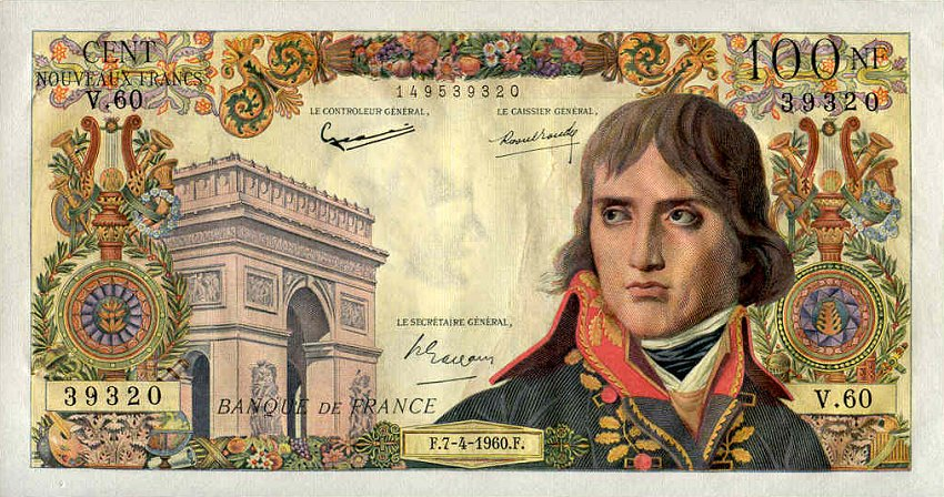 France 100 francs 1961